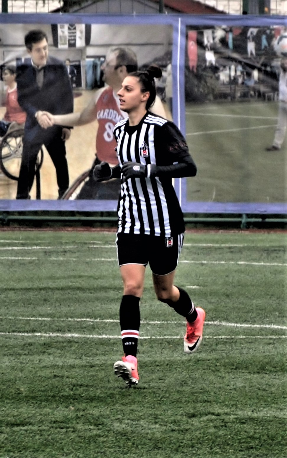 Eli Jakovsha playing for Beşiktaş J.K. in the 2017-18 Turkish Women's First Football League.